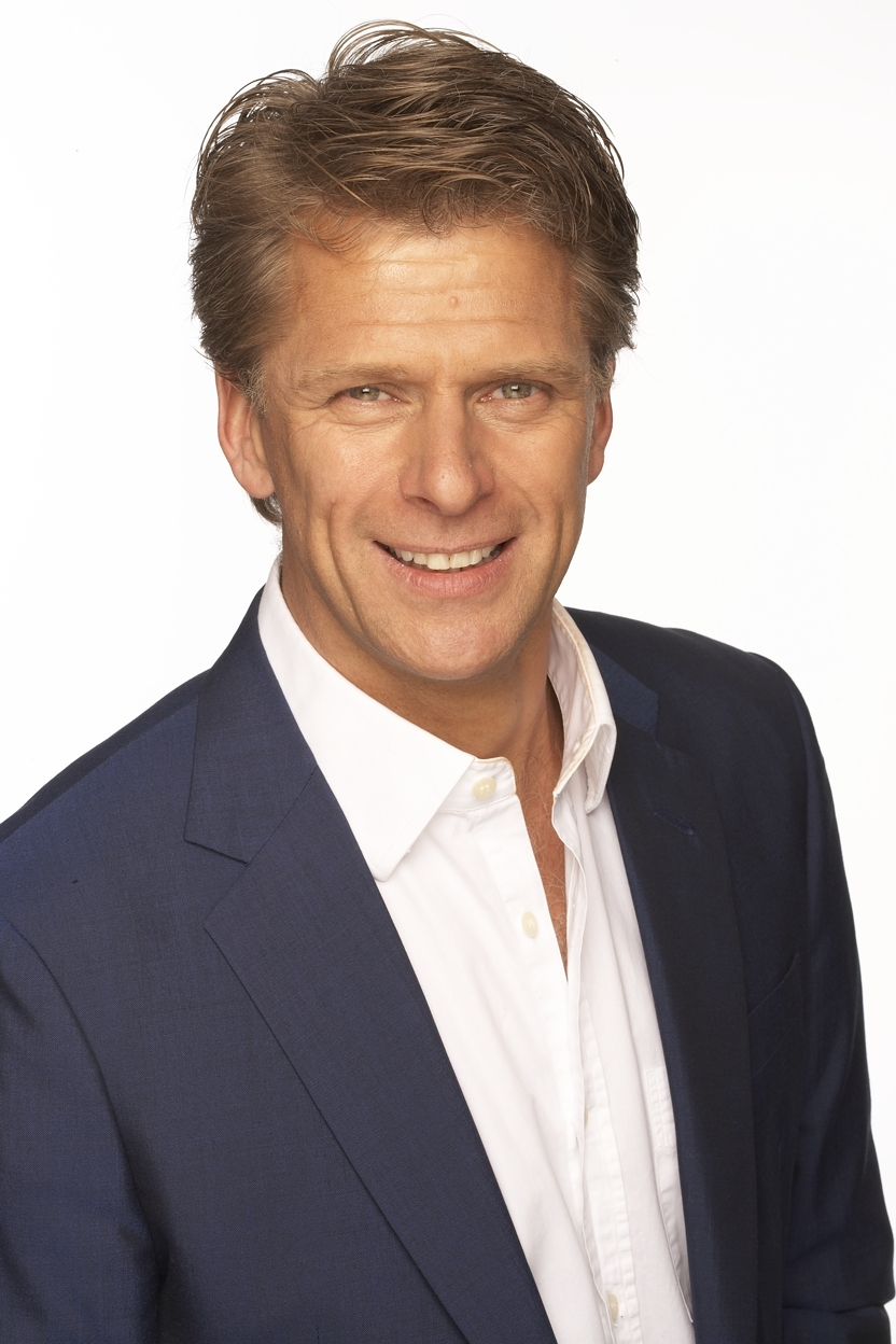 English tennis player and television presenter Andrew Castle